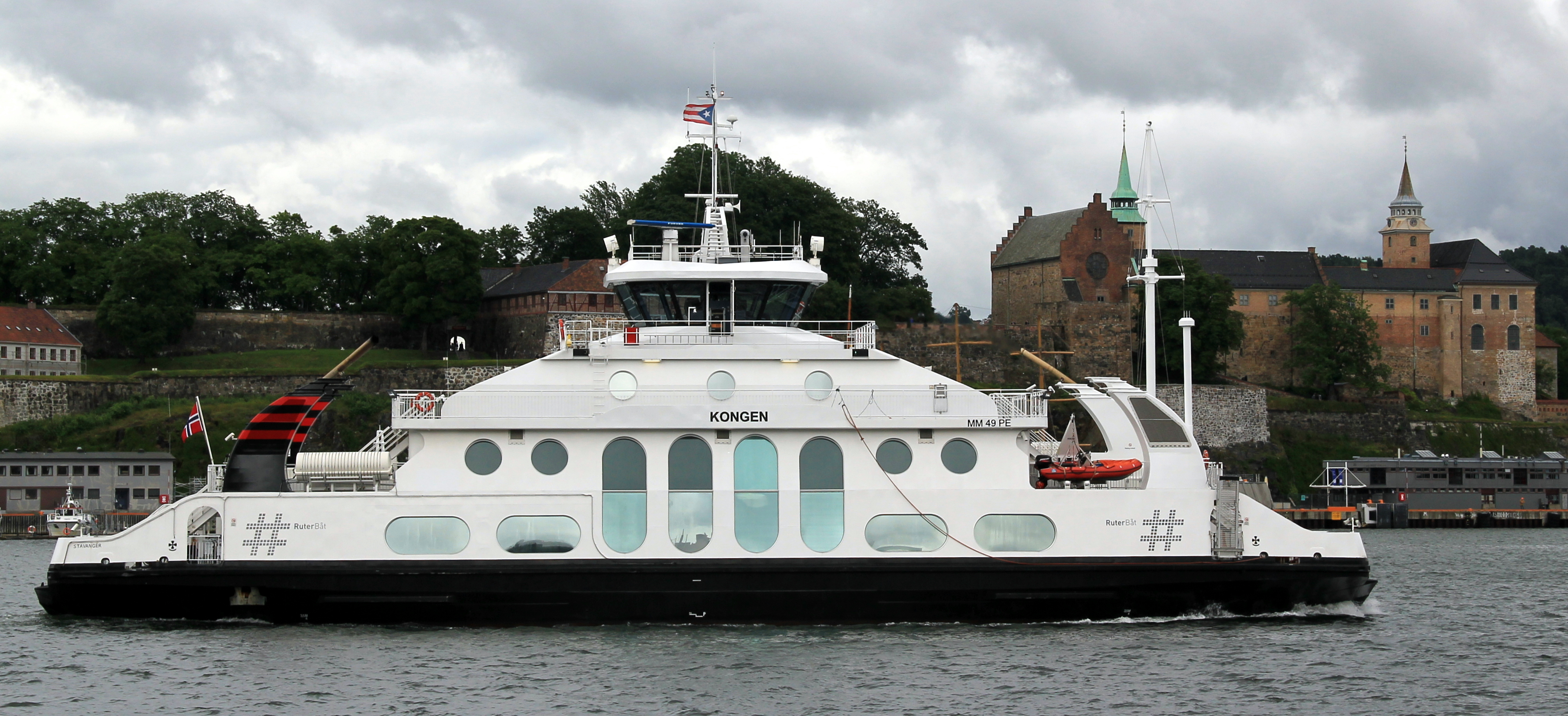 Ferryboat MS Kongen